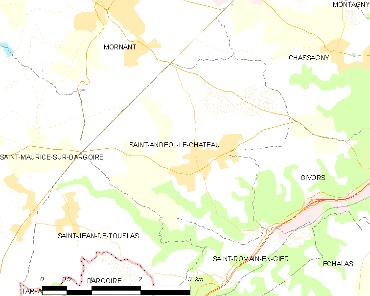 Map of French municipality